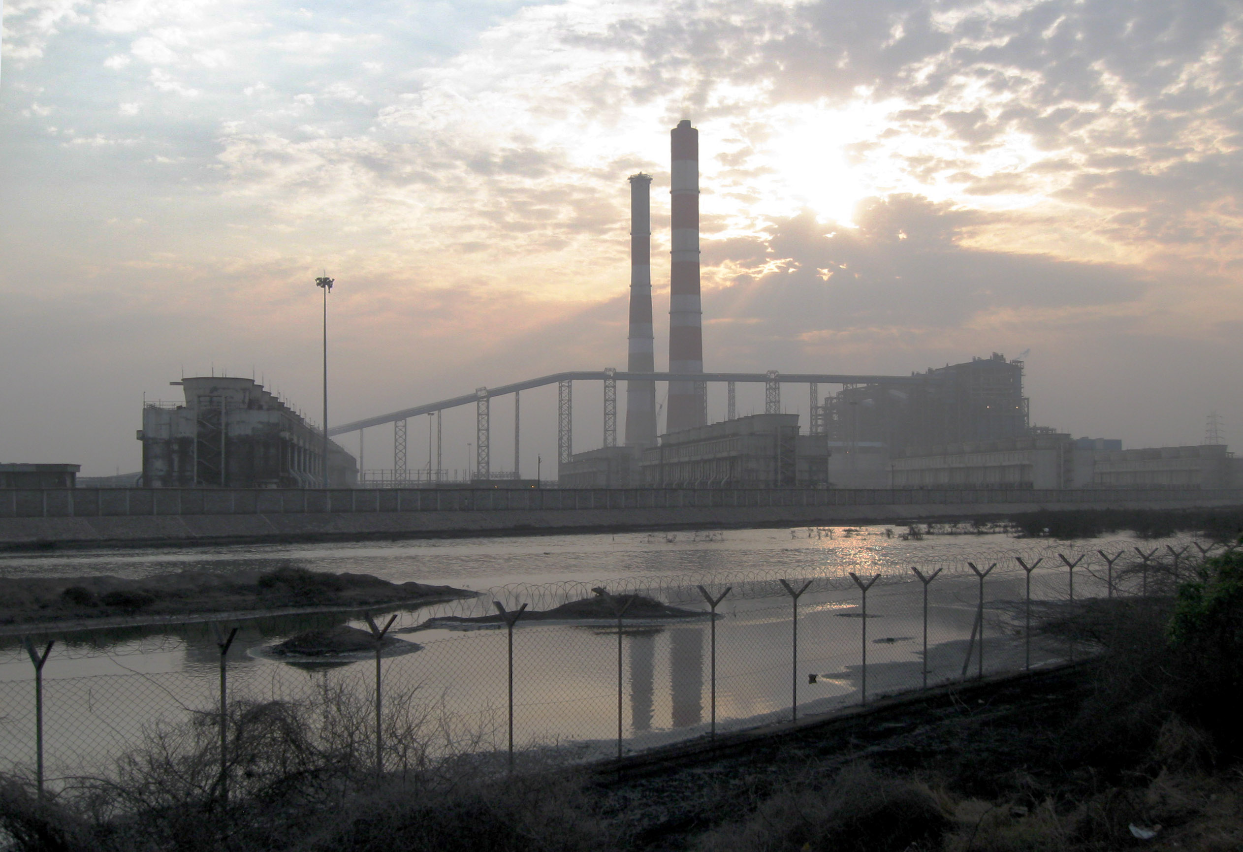 Power plant operated by NTPC Tamil Nadu Energy Company Limited near Ennore, Chennai